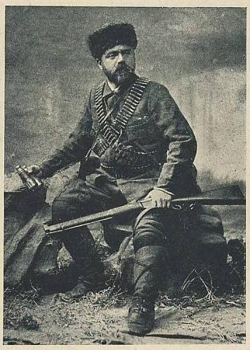 Portrait fo Anton Ketzkarov from IMARO